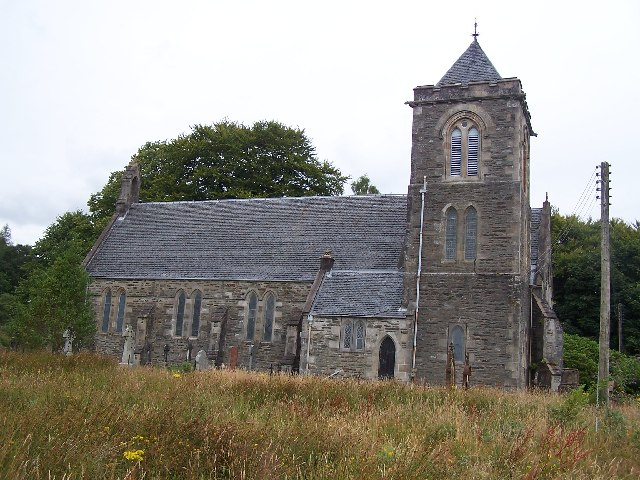 Kilbride church. the Scottish Episcopal church